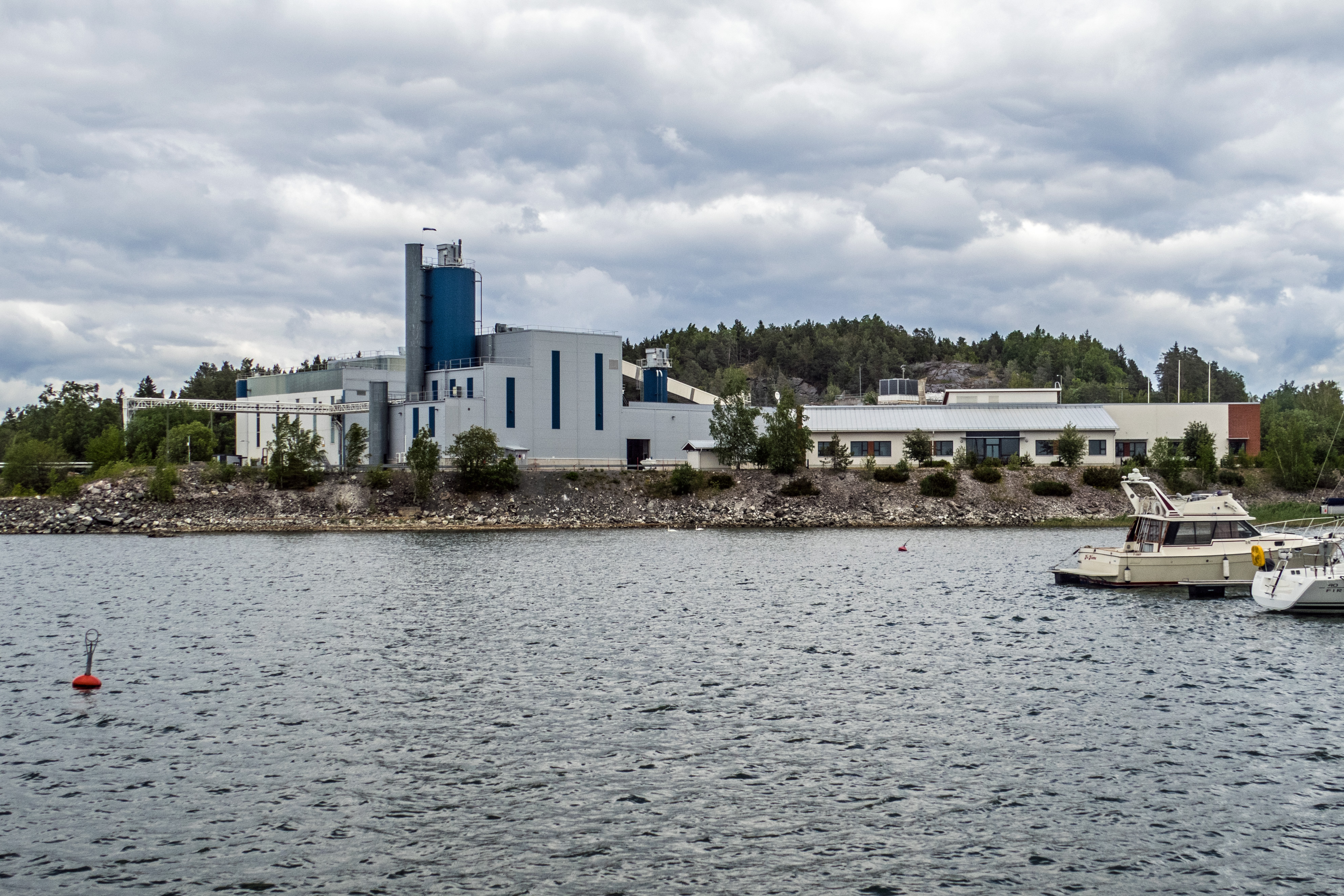 Omya limestone processing mill in Förby, Salo, Finland.